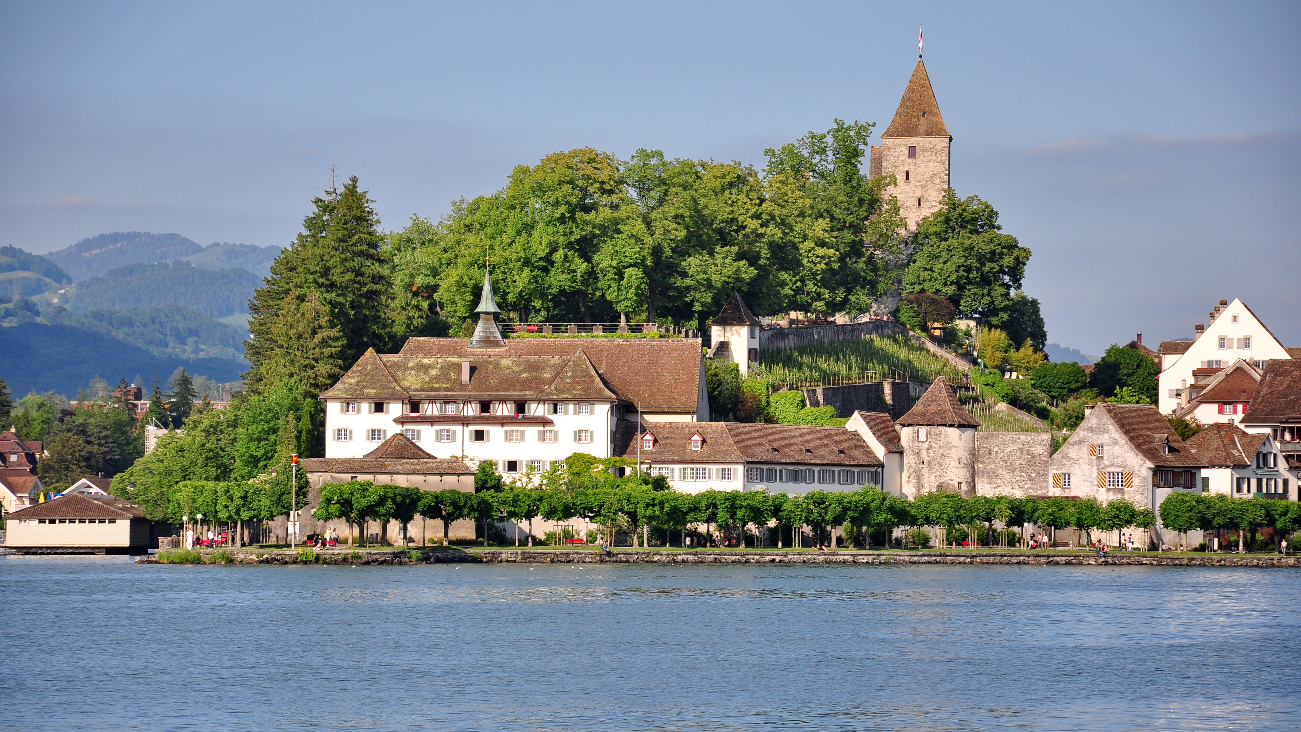 Rapperswil (SG) : Lindenhof hill, Kapuzinerkloster and Einsiedlerhaus (to the right), as seen from as seen from ZSG paddle steamer Stadt Zürich.